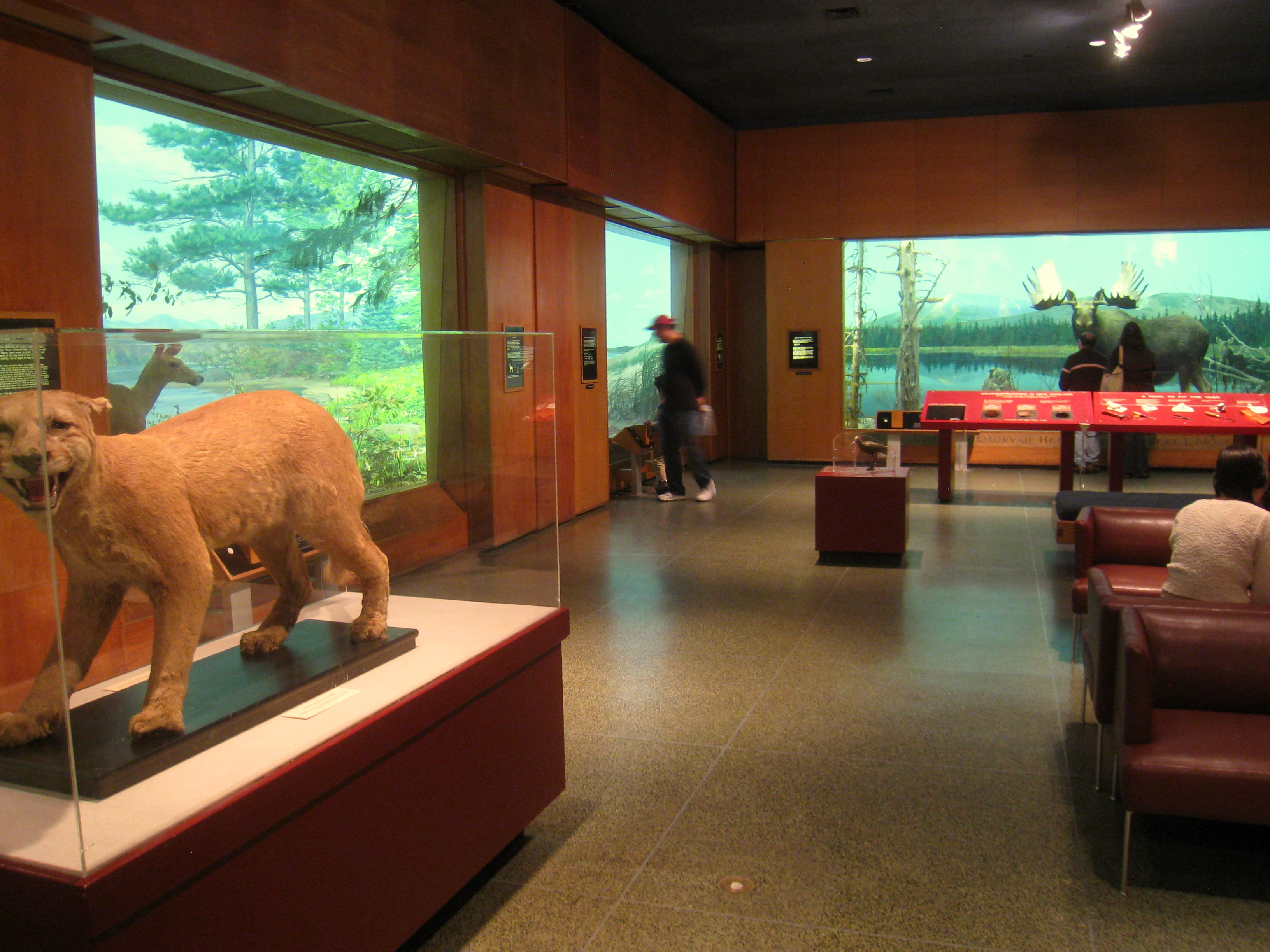 General view, Museum of Science, Boston, Massachusetts, USA. Note that there was no prohibition against photography in the museum.